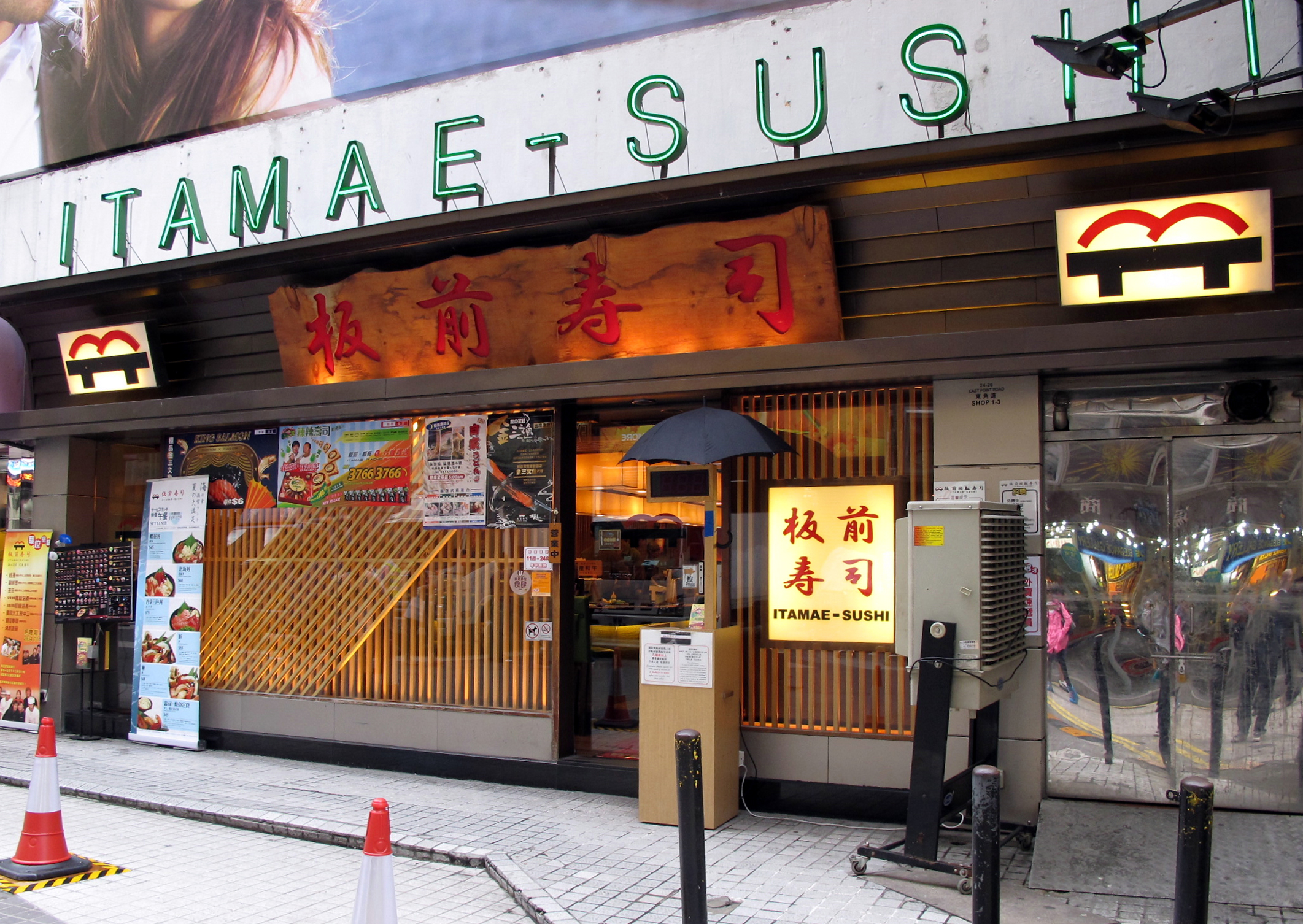 Itamae Sushi in Causeway Bay